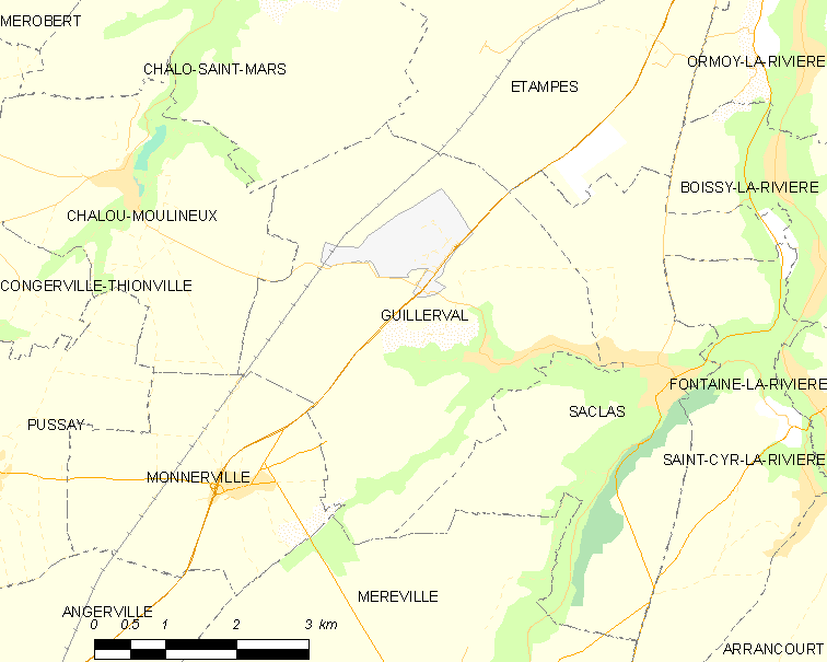 Map of French municipality Guillerval